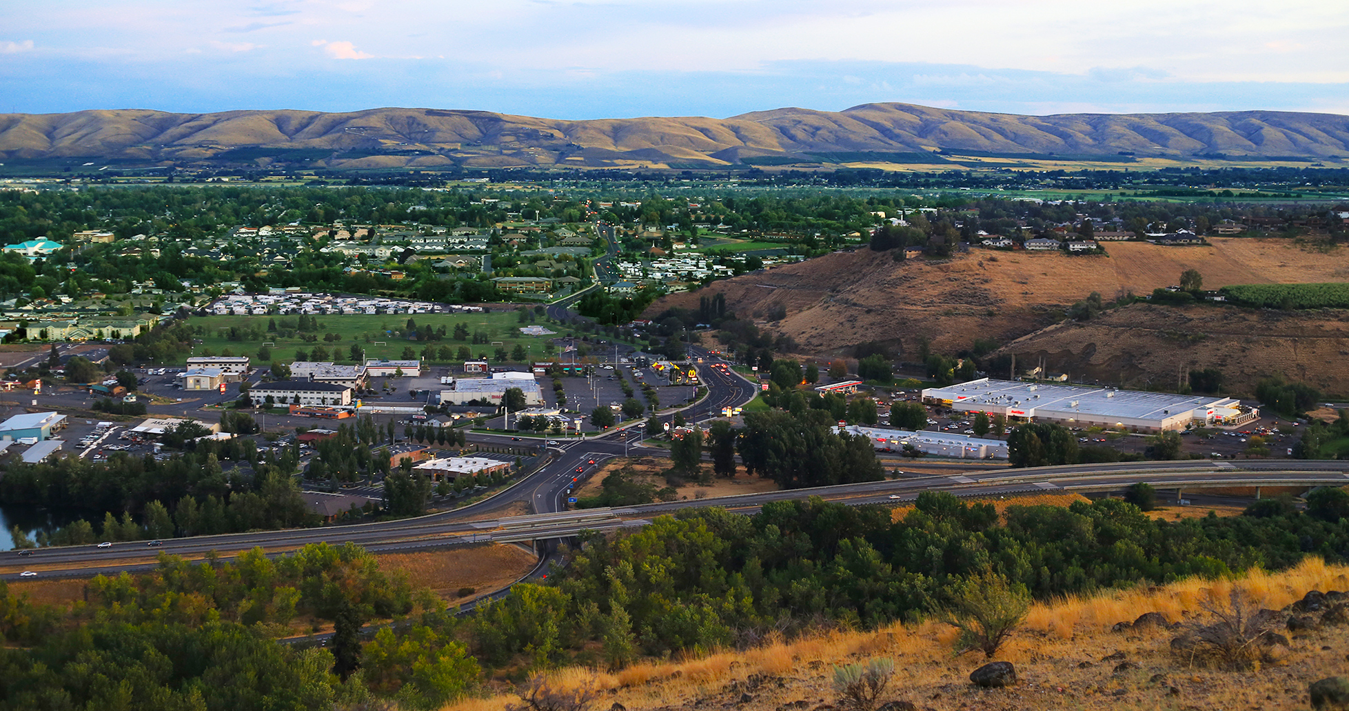 Yakima, Washington as seen from Lookout Point. 40th Ave looking south.